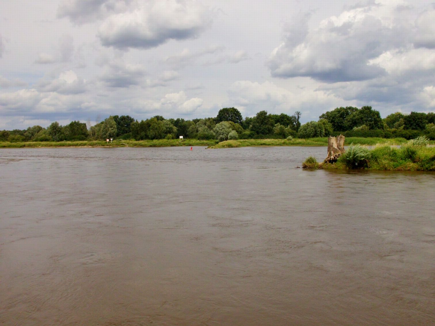 The Neisse river at the confluence in the Oder river. View to Poland. Up front the Neiße river